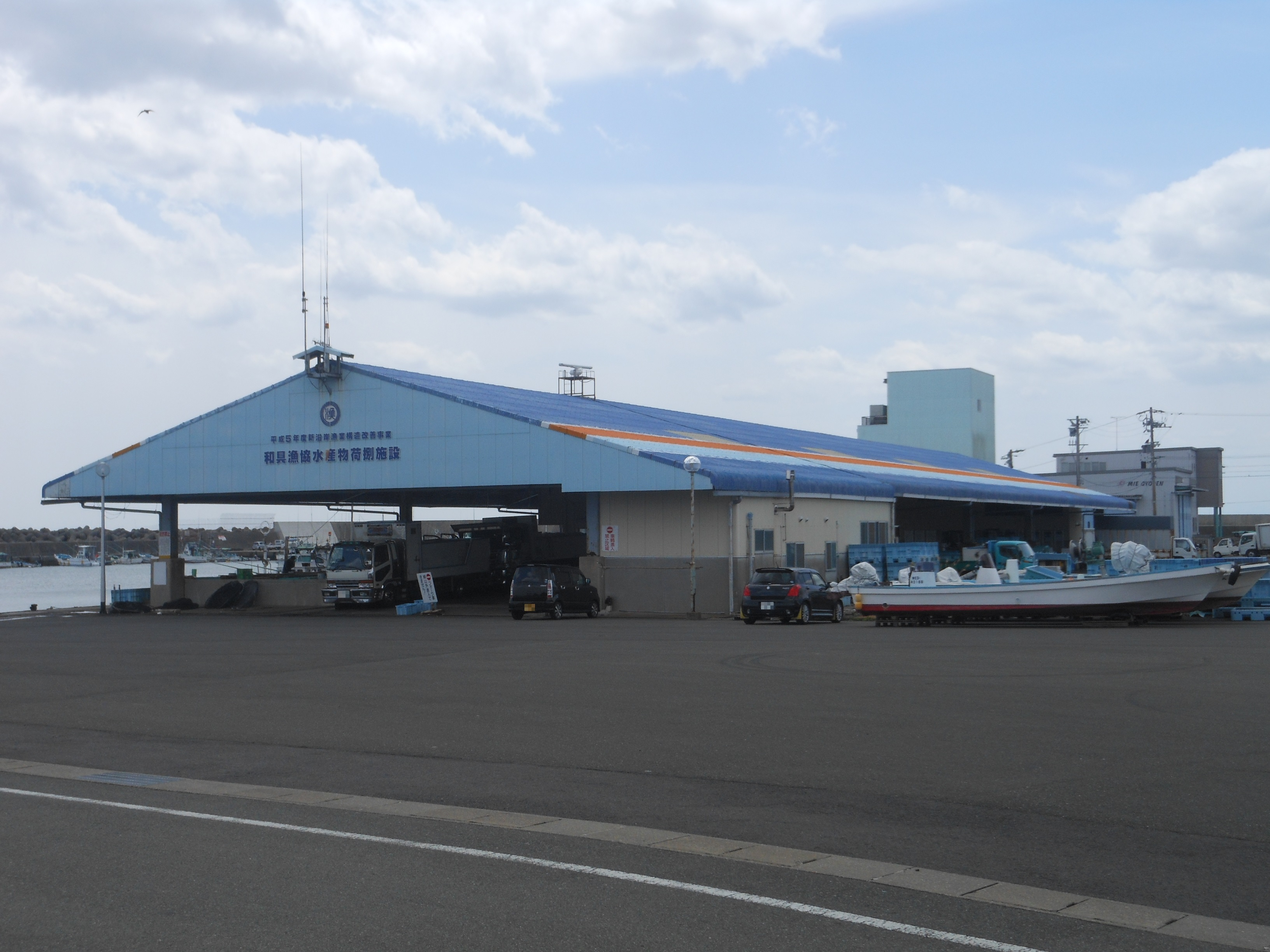 Wagu Fishery Cooperative Association Facility for Disposal of Marine Products is in the Wagu Fishing Port, which is located in Shimacho-Wagu, Shima, Mie, Japan.